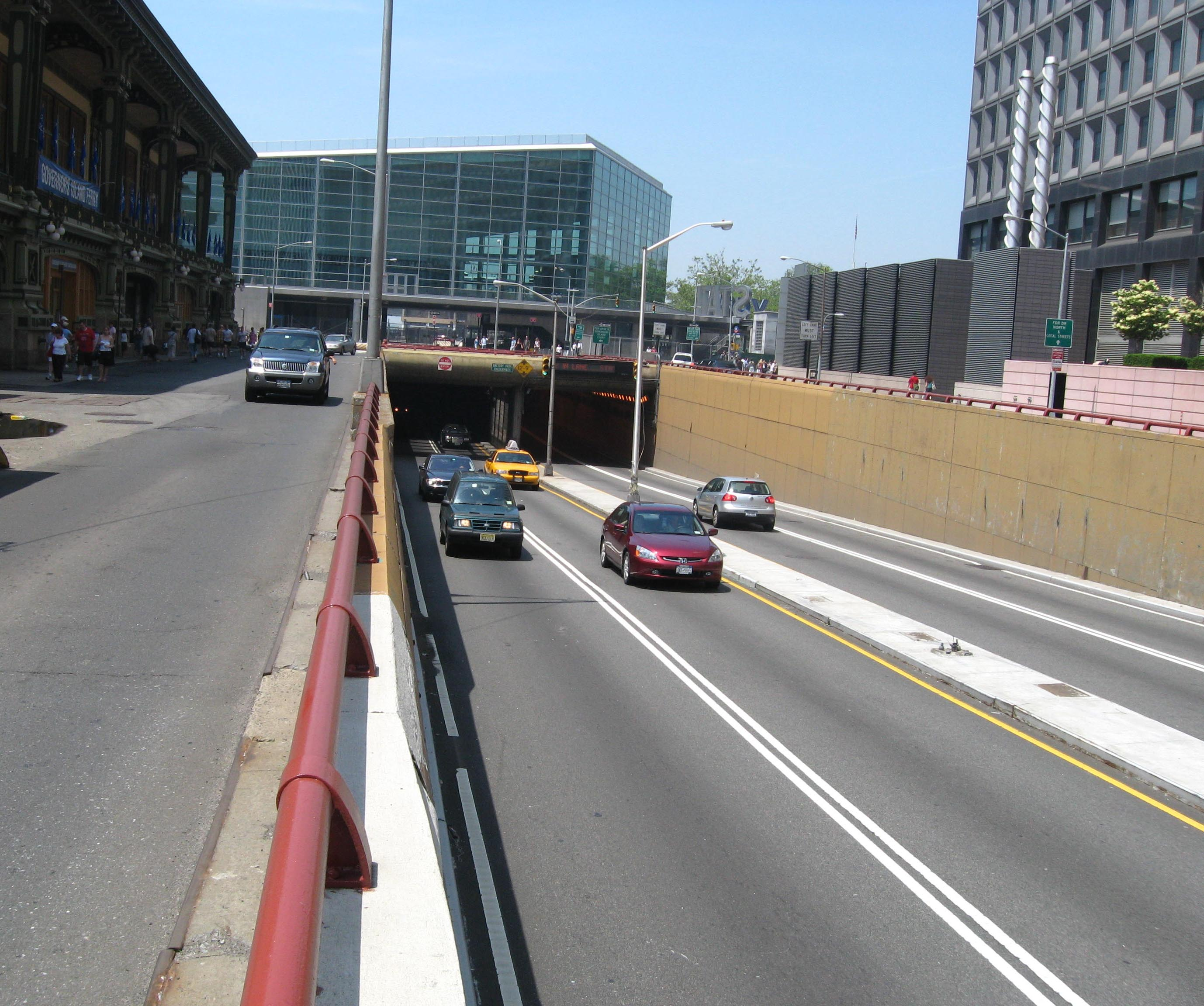 Looking west at Battery Park Underpass eastern portal, ramp rising towards FDR Drive on a late morning in June.